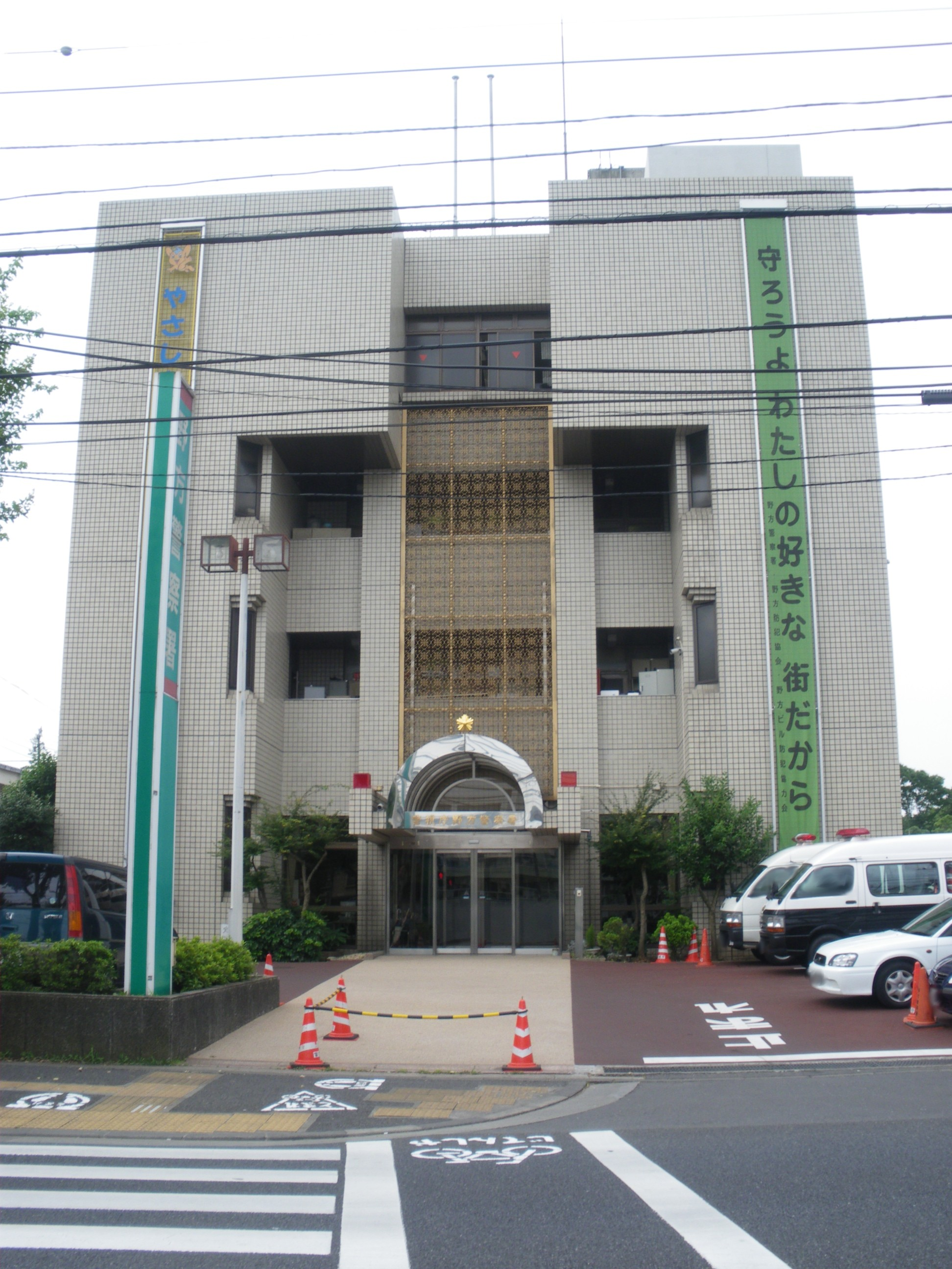 A photo of Nogata police station,Nakano,Nakano-ku,Tokyo,Japan.